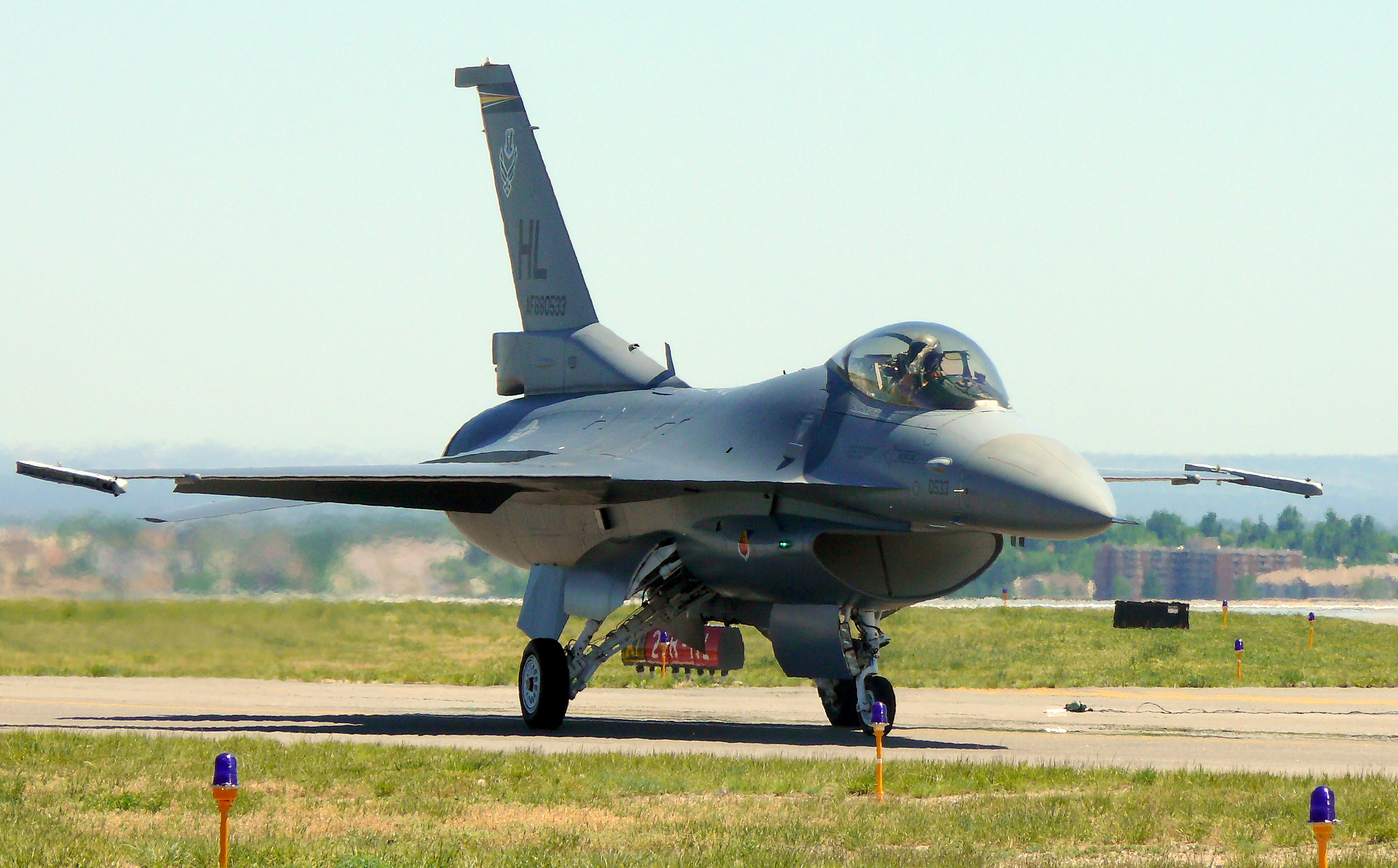 F-16 Fighting Falcon at Rocky Mountain Metropolitan Airport